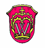 Coat of Arms of Großwallstadt